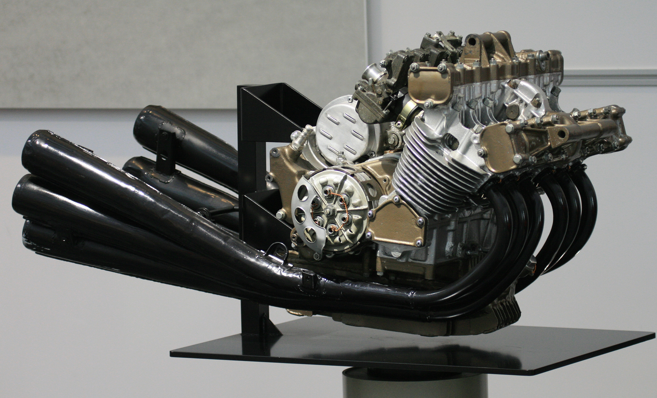 1964 Honda RC165E engine (the engine powered Honda RC165 racing motorcycle in the 250cc World Championship from 1964 to 1967). Air-cooled 249.42cc In-line 6-cylinder engine, DOHC. 7-speed transmission. 54.3PS / 17,500rpm